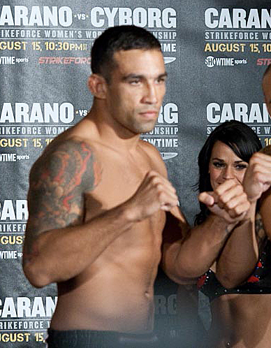 Brazilian mixed martial artist Fabricio Werdum, at the weigh-in before the Strikeforce: Carano vs. Cyborg event.